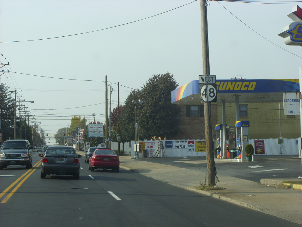 Delaware Route 48 westbound past Greenhill Avenue in Wilmington